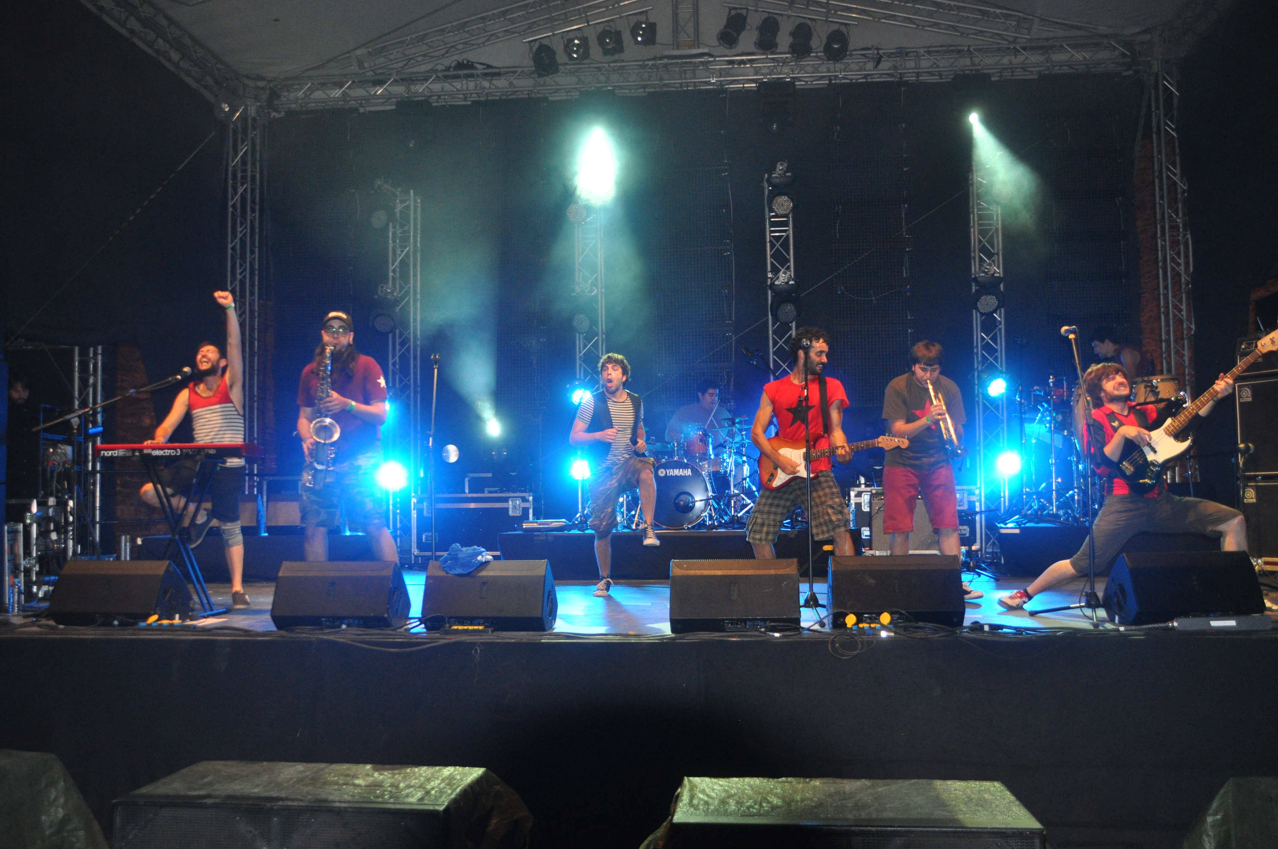 Txarango (Spain), appearence at the 11th world music festival "Horizonte" 2013 at the fortress Ehrenbreitstein, Koblenz, Germany